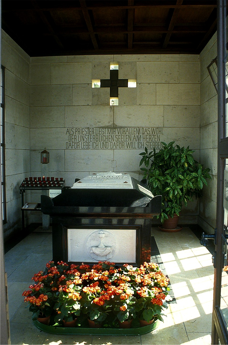 Tomb of Sebastian Kneipp in Bad Wörishofen